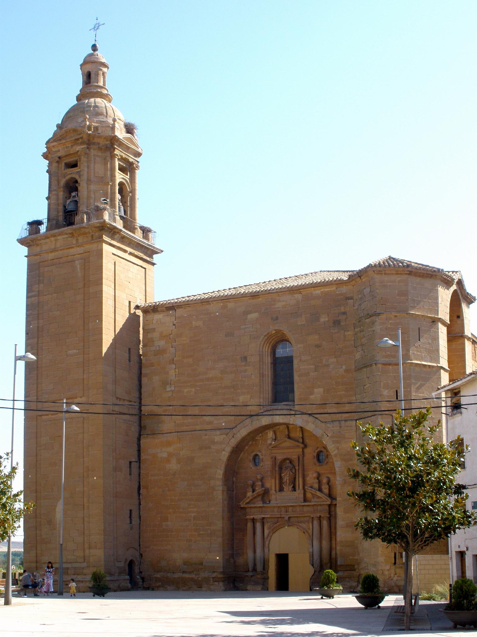 Iglesia parroquial de Nuestra Señora la Blanca, Agoncillo (La Rioja, España)